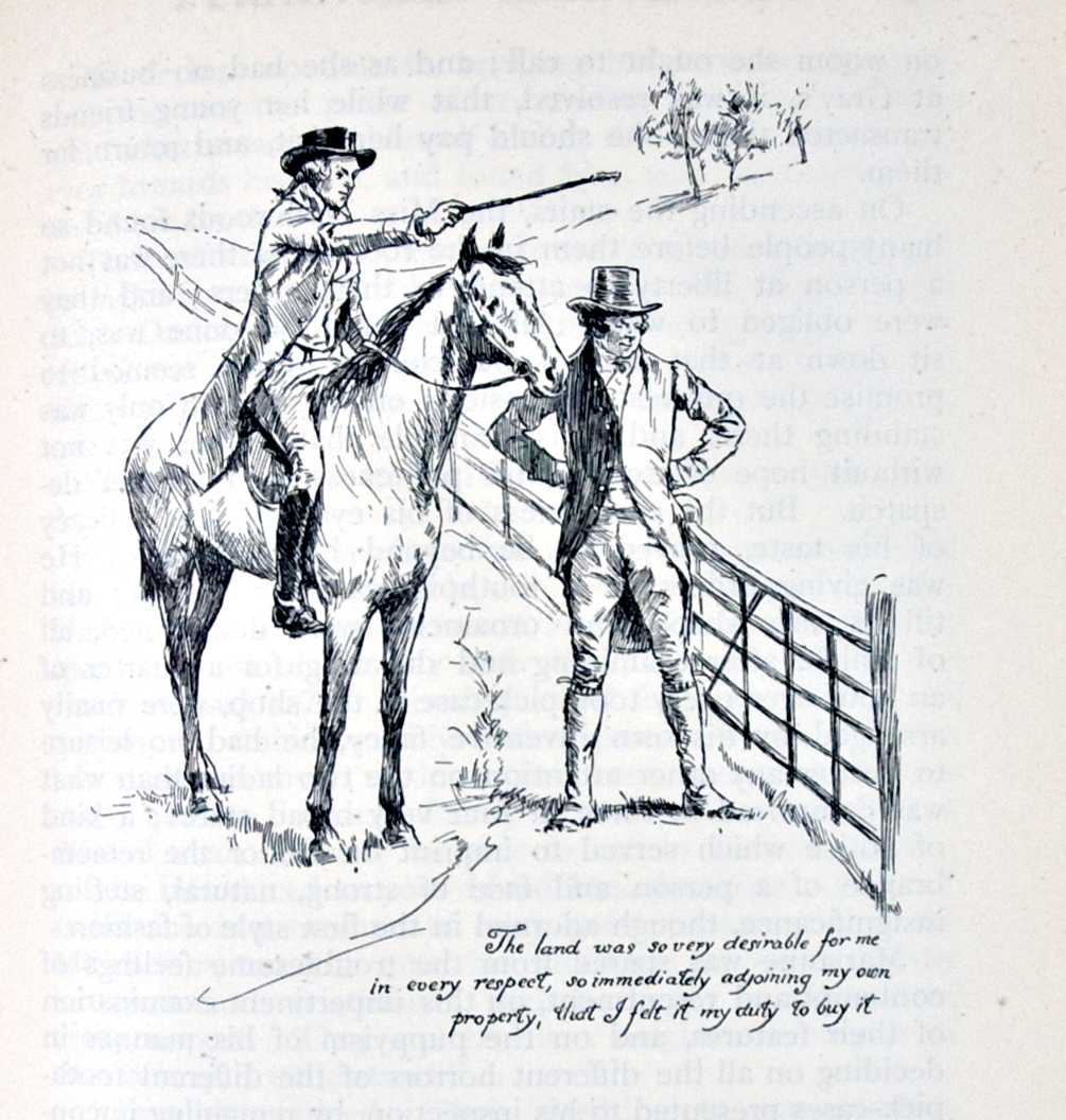 "The land was so very desirable for me in every respect, so immediately adjoining my own property, that I felt it my duty to buy it." - John Dashwood speaking of his investments to Elinor (in the text). Austen, Jane. Sense and Sensibility. London: George Allen, 1899, page 229.